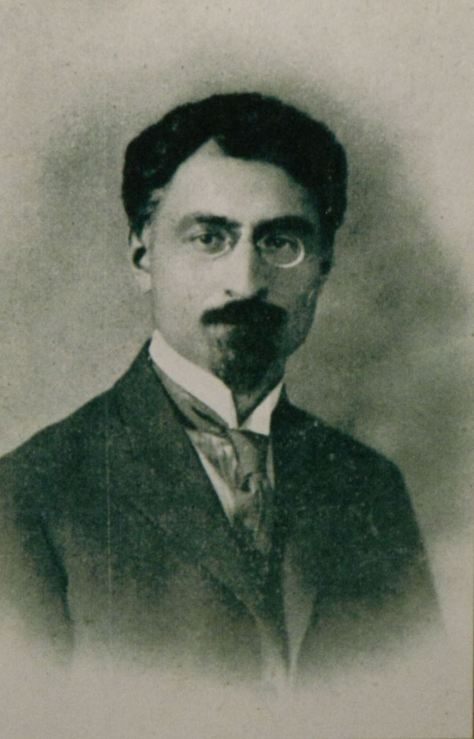 Minister ar Republic of Armenia before 1920